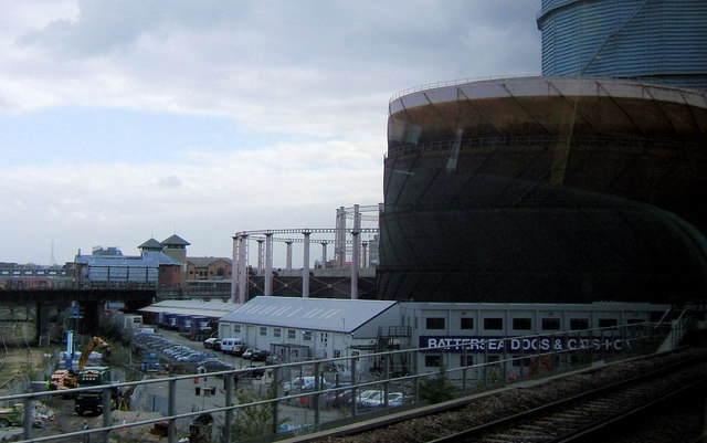 Battersea Dogs & Cats Home This is a view of the rear of the Dogs Home taken from a train. The building is overshadowed by the huge gas-holders.